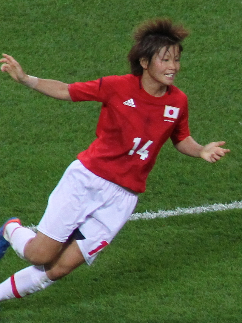 Asuna Tanaka during the 2012 Olympic gold medal match between USA and Japan.